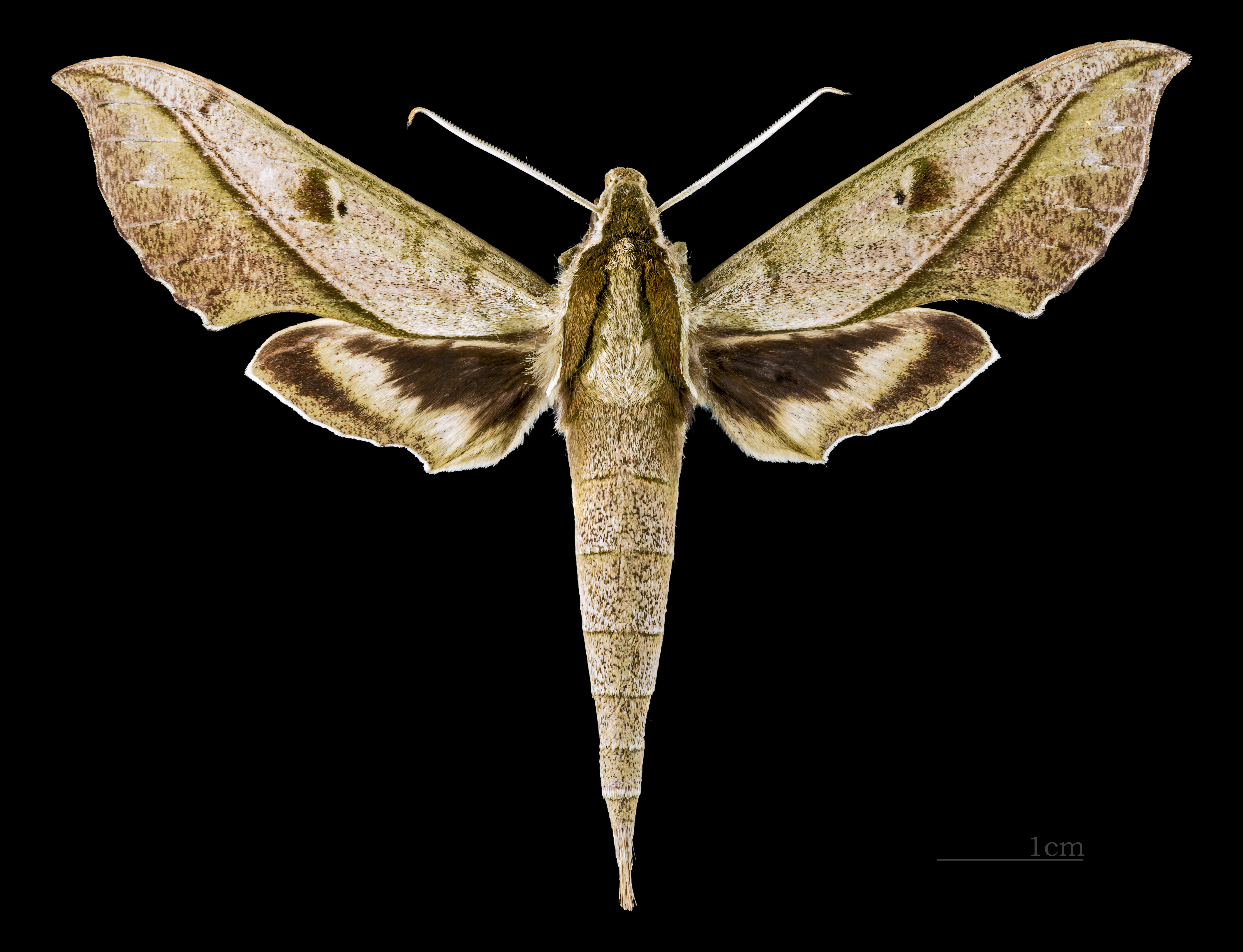 Xylophanes cosmius - Dorsal side